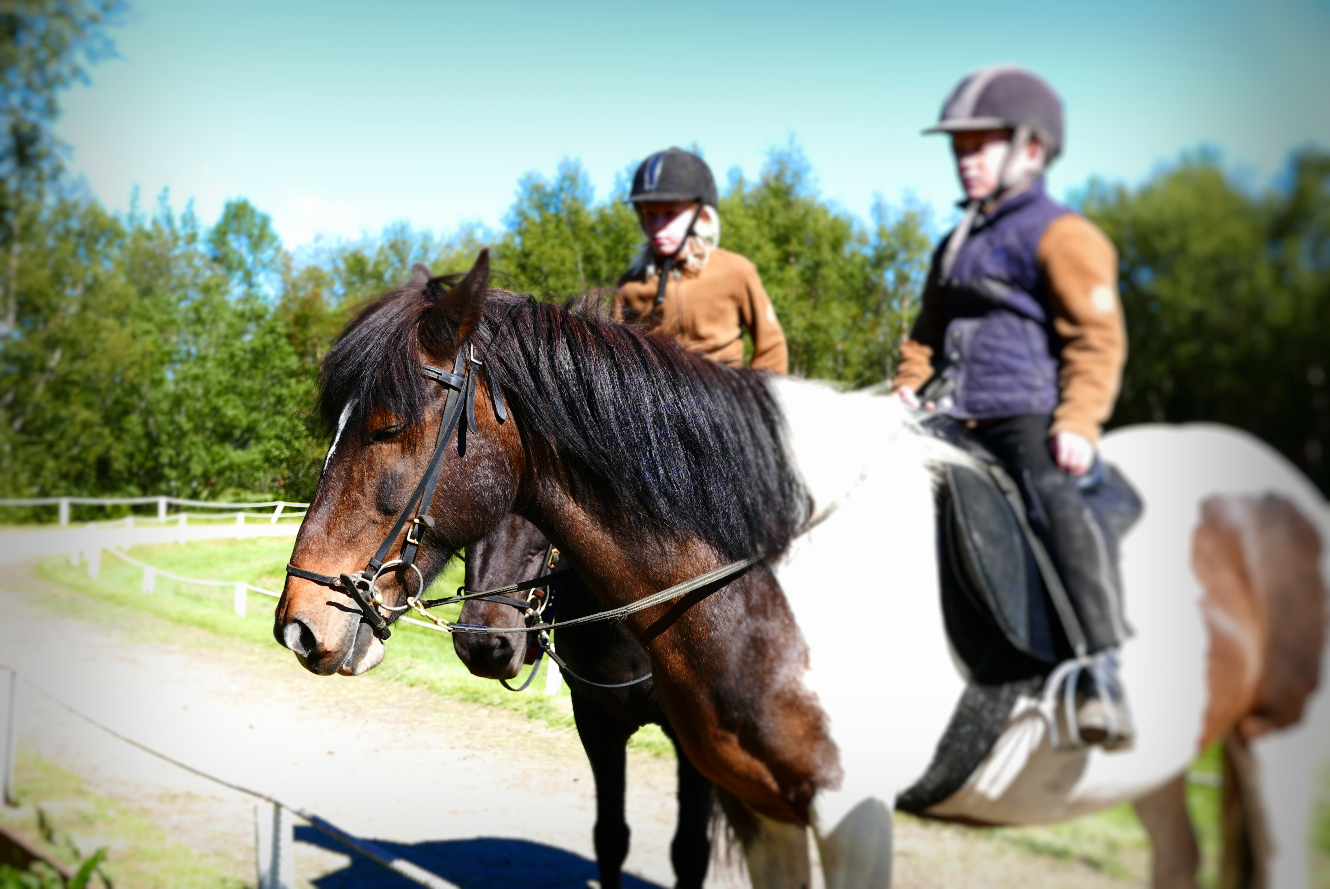 Kids riding icelandic horses.